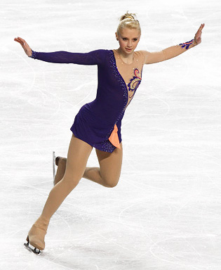 Ksenia Makarova at the 2010 European Figure Skating Championships.